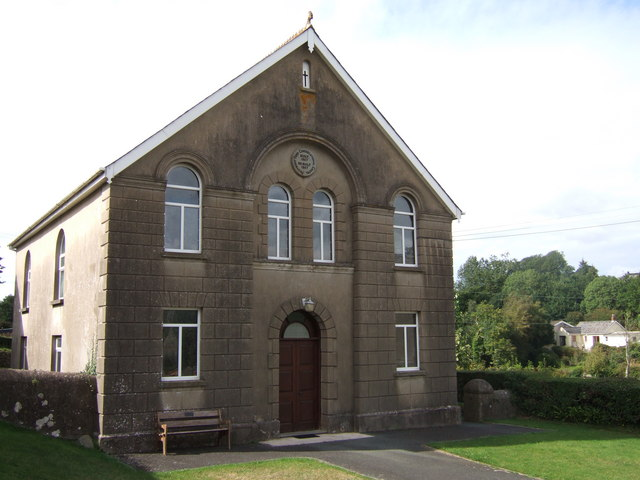 Congregational chapel, Wolf's Castle/Cas Blaith. Penybont Congregational chapel, dated 1907. It's by the old bridge pictured in the first Geograph, hence the name.